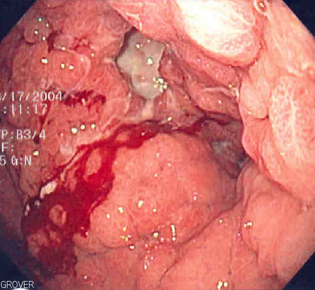 Endoscopic image of linitis plastica, where the entire stomach is invaded with gastric cancer, leading to a leather bottle like appearance. Released into public domain on permission of patient -- Samir धर्म 08:44, 7 June 2006 (UTC) Category:Endoscopic images